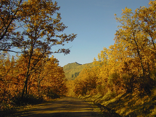 Beech forest in Montejo de la Sierra, province of Madrid, Spain.